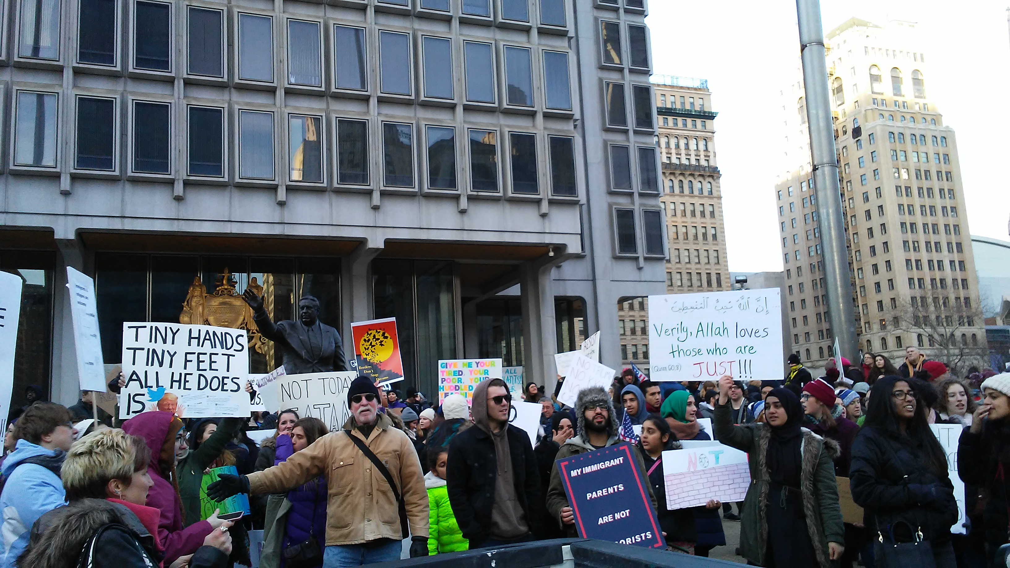 On Saturday, February 4, the March for Humanity was held in Philadelphia to show support for immigration and refugees, among other things.